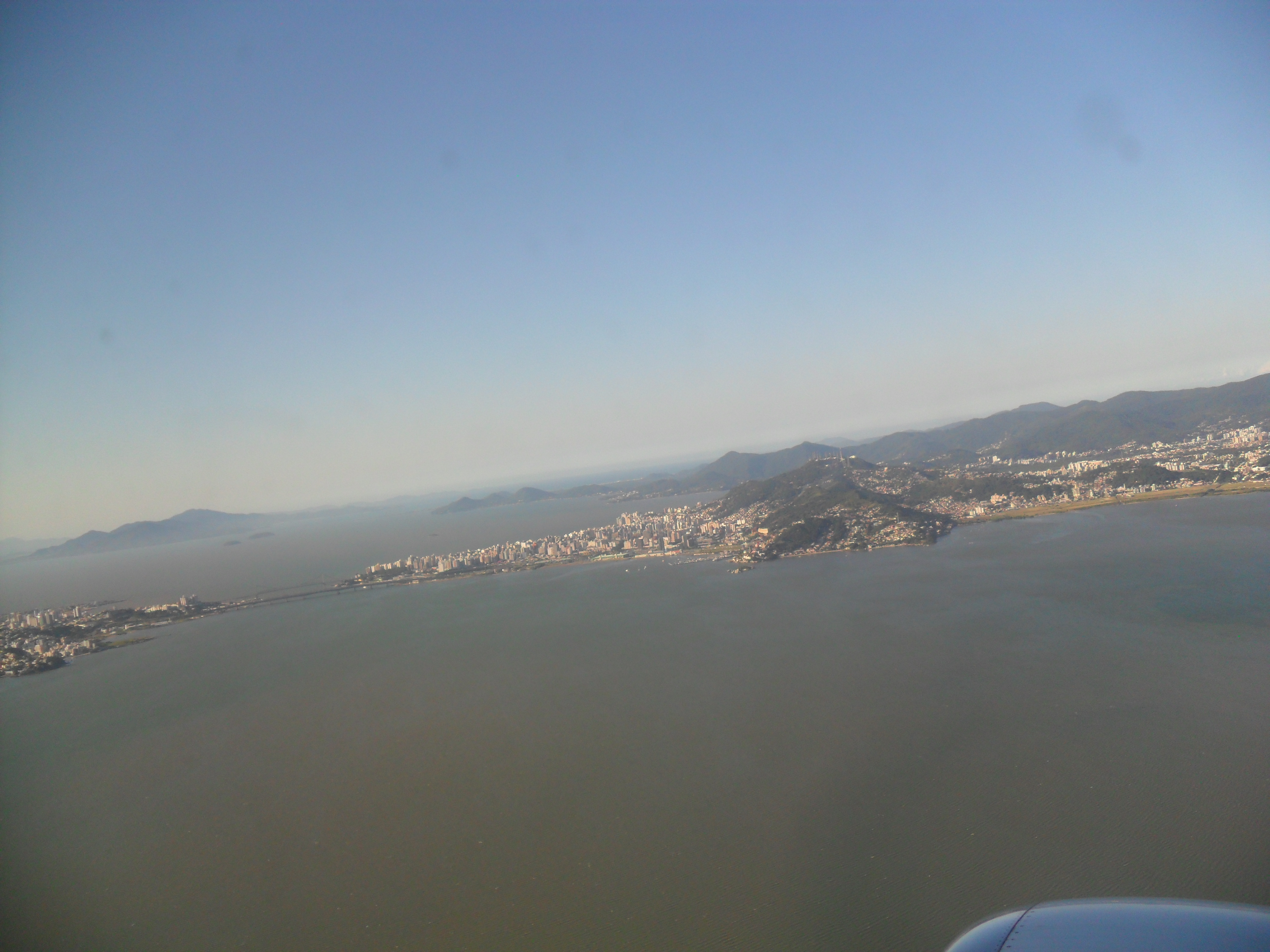 NorthandSouthbay